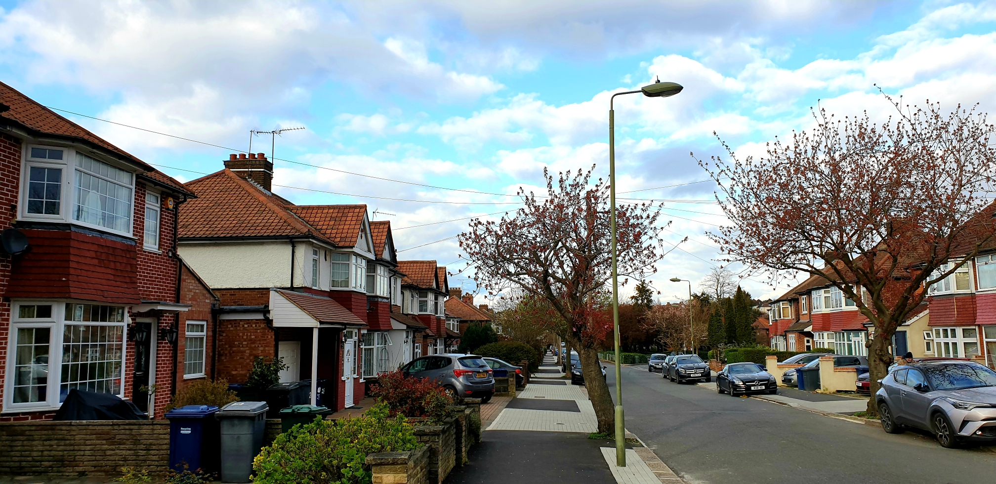 Typical street in Golders Green Estate, lined with 1930s semi-detached houses with cherry trees lining the road.